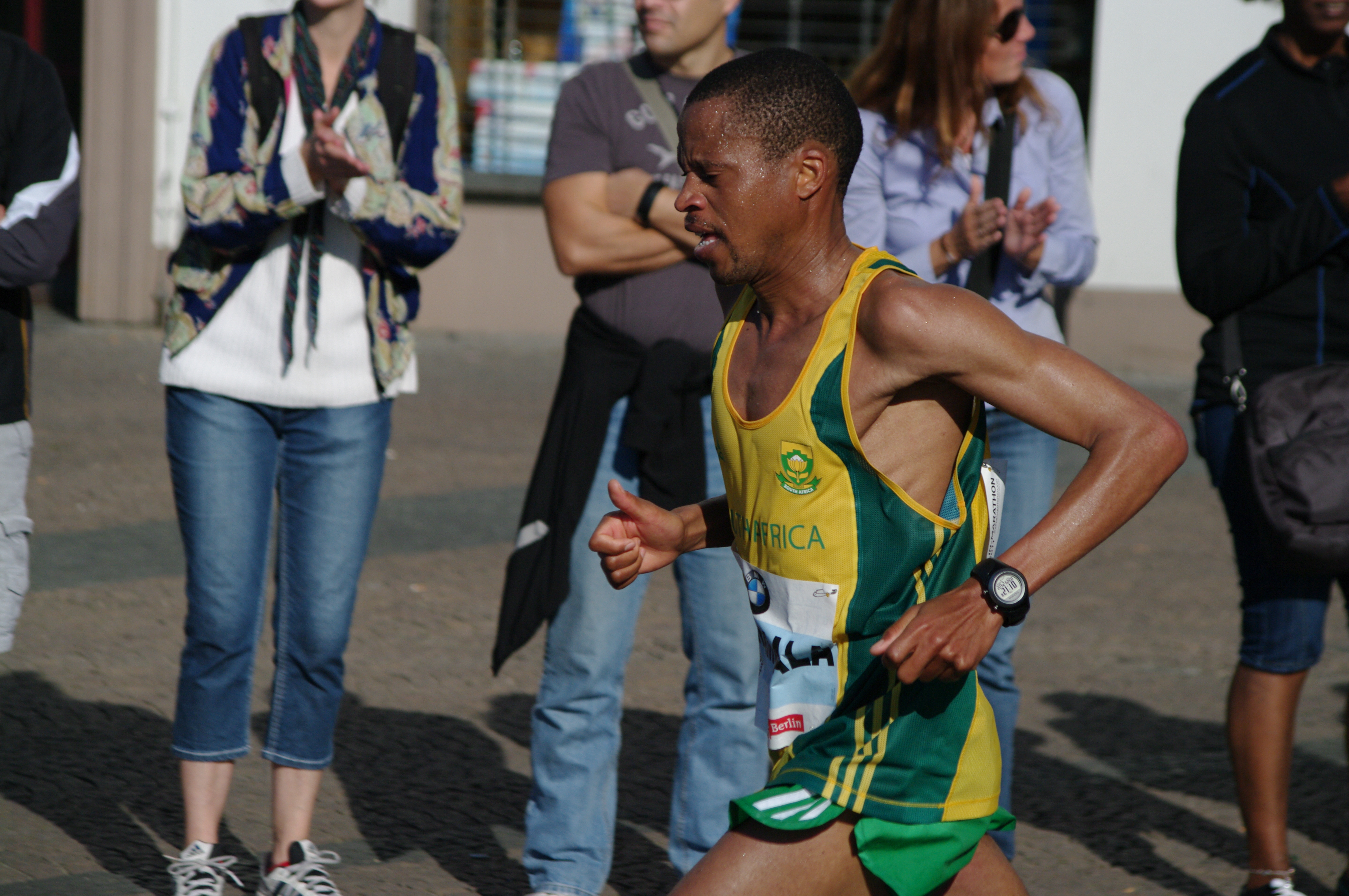 Hendrick Ramaala running the Berlin Marathon 2011, Kilometer 24, Innsbrucker Platz